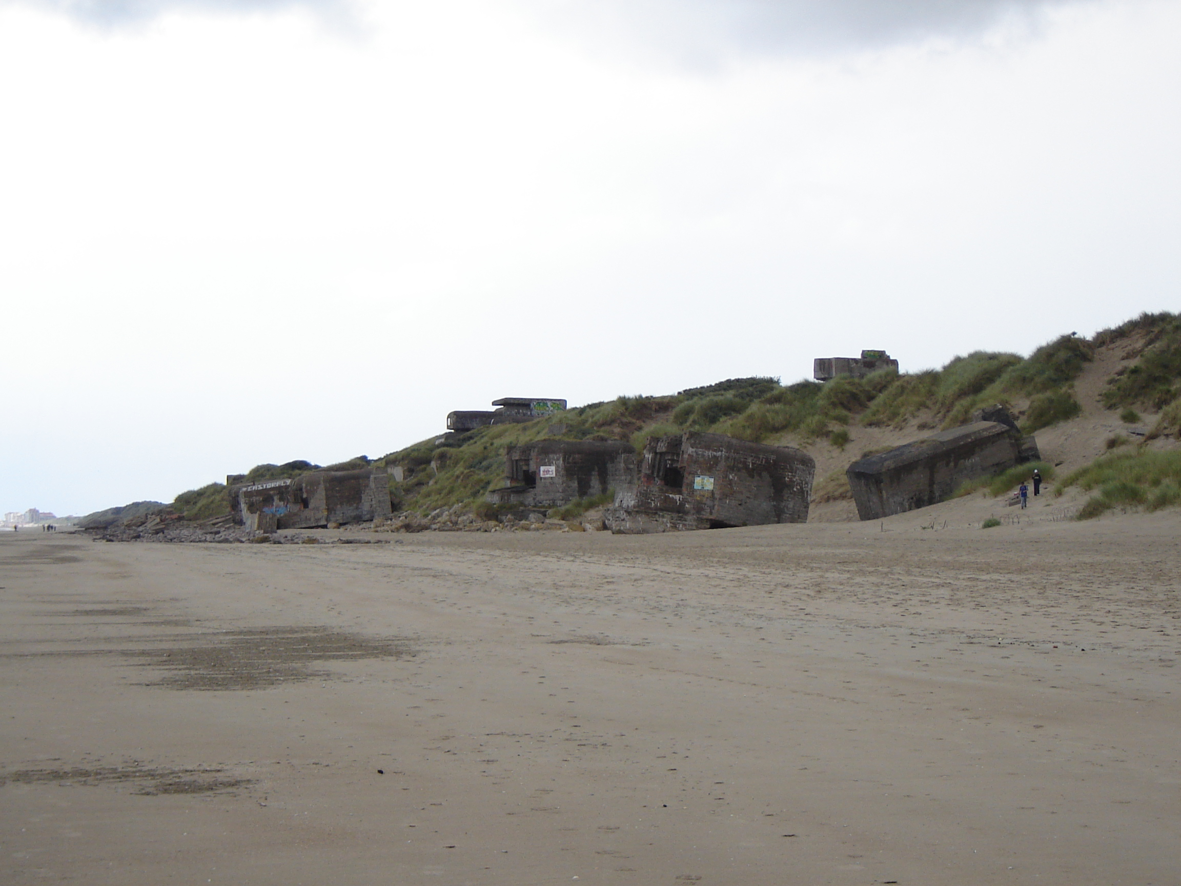 Beach of Leffrinckoucke (North Sea). View towards Zuydcoote; with artillery bunkers fro, the Seconds World War. Leffrinckoucke, Nord, Nord-Pas-de-Calais, France